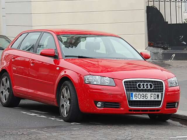 Audi A3 Sportback